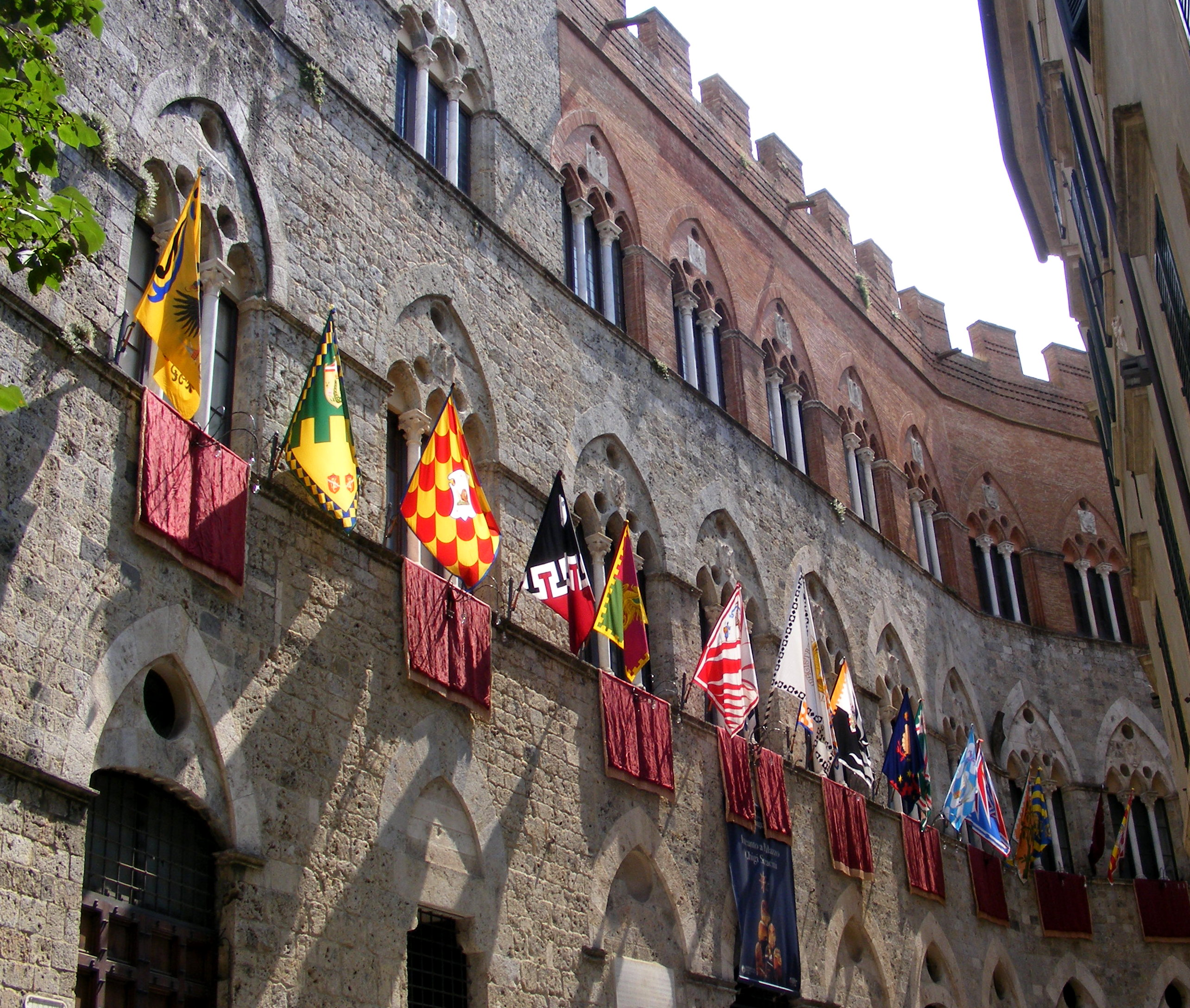 Siena, Italy: Palazzo Chigi-Saracini with the flags of the Siena contrade (from left to right): Aquila, Bruco, Chiocciola, Civetta, Drago, Giraffa, (general flag), Leocorno, Lupa, Nicchio, Oca, Onda, Pantera, Selva, Tartuca, Valdimontone (Istrice is missing)